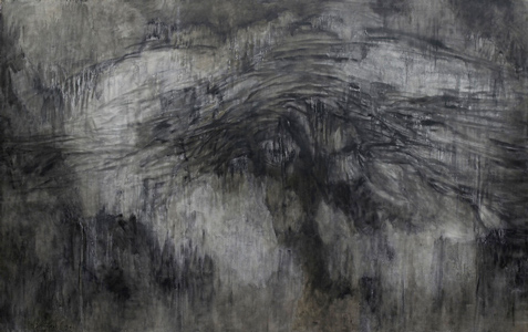 Pierre Dmitrienko, 1960 "La sorcière d la pluie", oil on canvas, 180x300cm